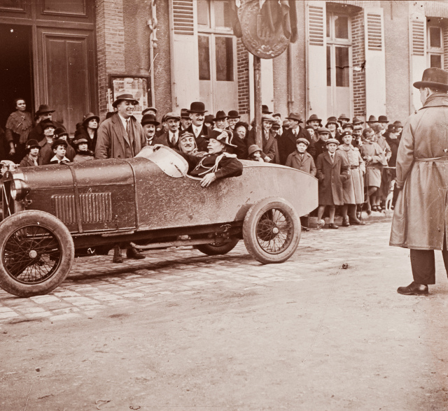 One of three mystery French stereoviews, all depicting what appears to be some sort of carnival procession. There's a clown-like joker with a pipe in one, and everyone looks very jolly. The '69' number on the motorbike numberplate in one of the shots suggests it could be somewhere in the Rhone region. Based on others in this extensive batch it's probably 1920s (though as comment below suggests, the clothing could suggest more 1930s) Car clearly is a mid-1920s Salmson VAL3 voiturette.